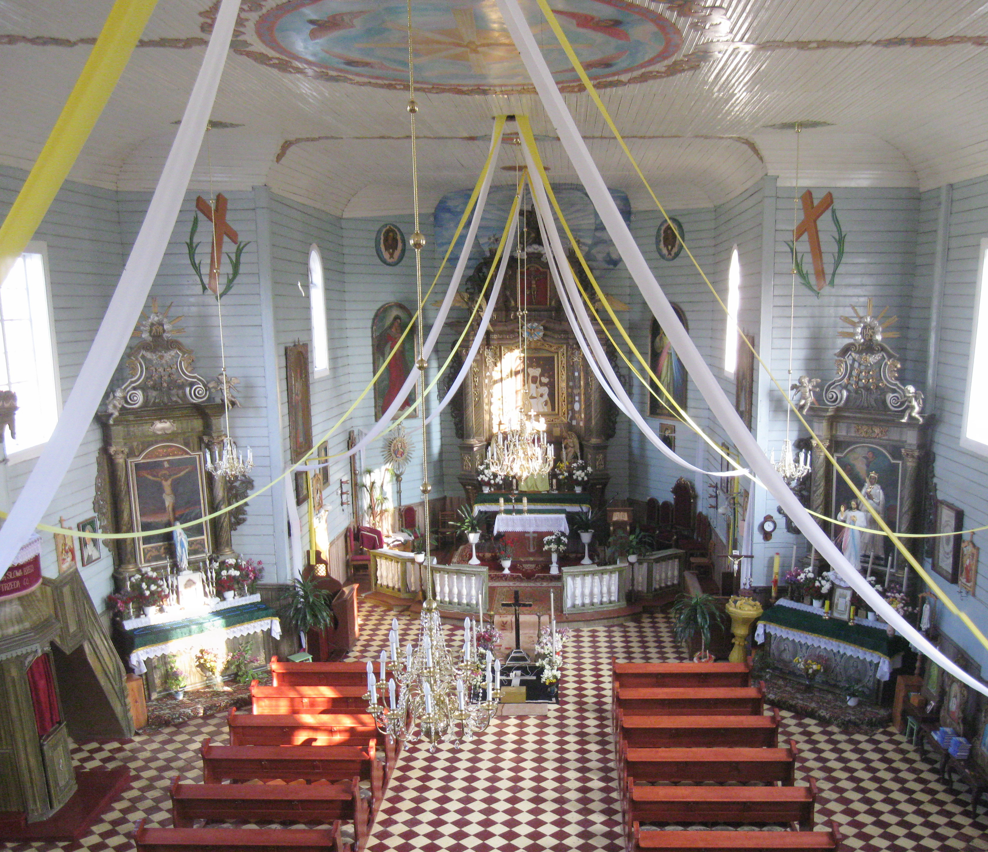 Беларуская (тарашкевіца): Касьцёл Марыі. в. Дуды This is a photo of Belarusian heritage monument. Reference number: 413Г000294 ( WLM)